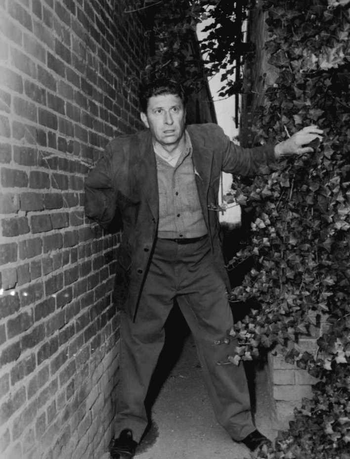 Photo of actor Bill Raisch as "the one armed man" from the television program The Fugitive.